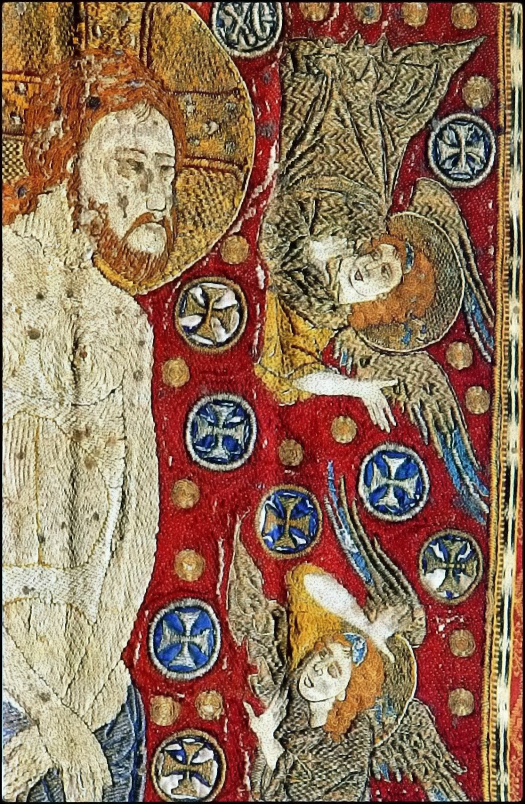 Ορμύλια Χαλκιδικής. Χρυσοκέντητος επιτάφιος του 14ου αιώνα